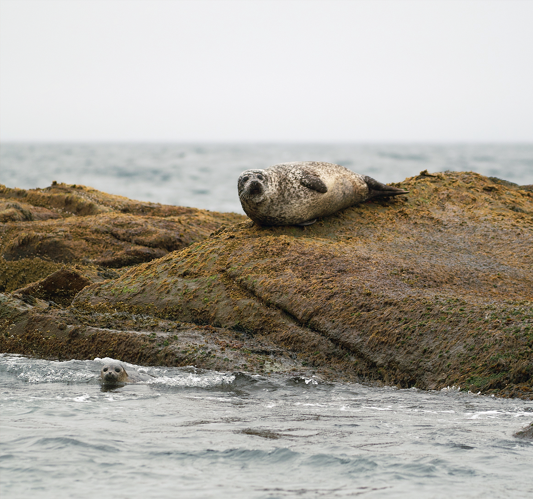 Common Seals (Phoca vitulina) near Anda Fyr, Norway